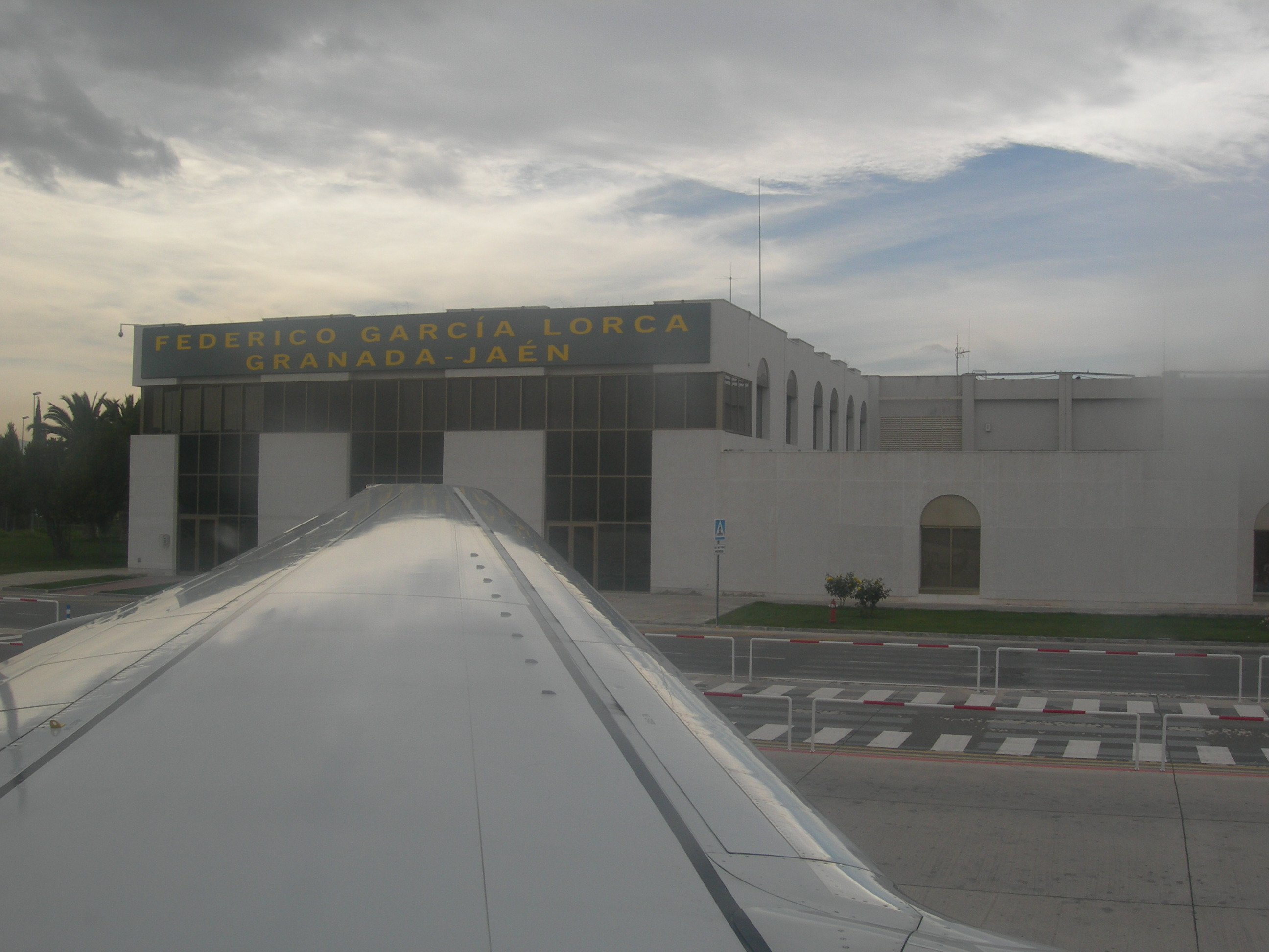 Federico Garcia Lorca International Airport, in Granada (Spain)